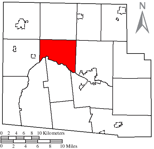 Made by the US Census and modified by myself to highlight the township